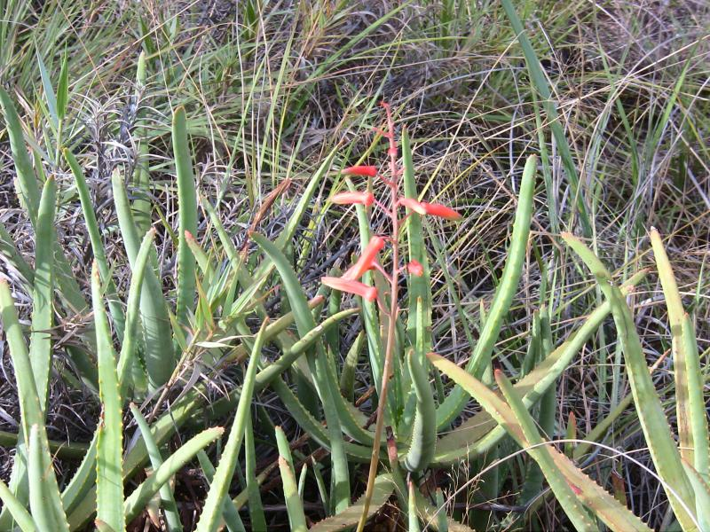 Aloe isaloensis H.Perrier